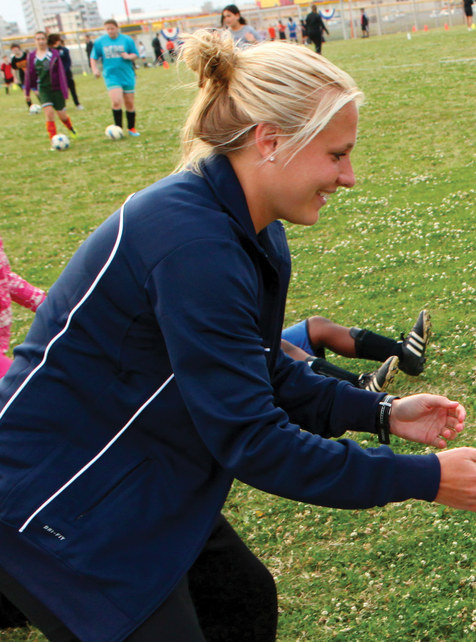 Laura Heyboer, left, and Kerryn C. Terry conduct a header drill during a soccer clinic March 21 at Camp Foster. The clinic provided children an opportunity to learn skills from professional players. Heyboer is a forward for Seattle Reign FC.